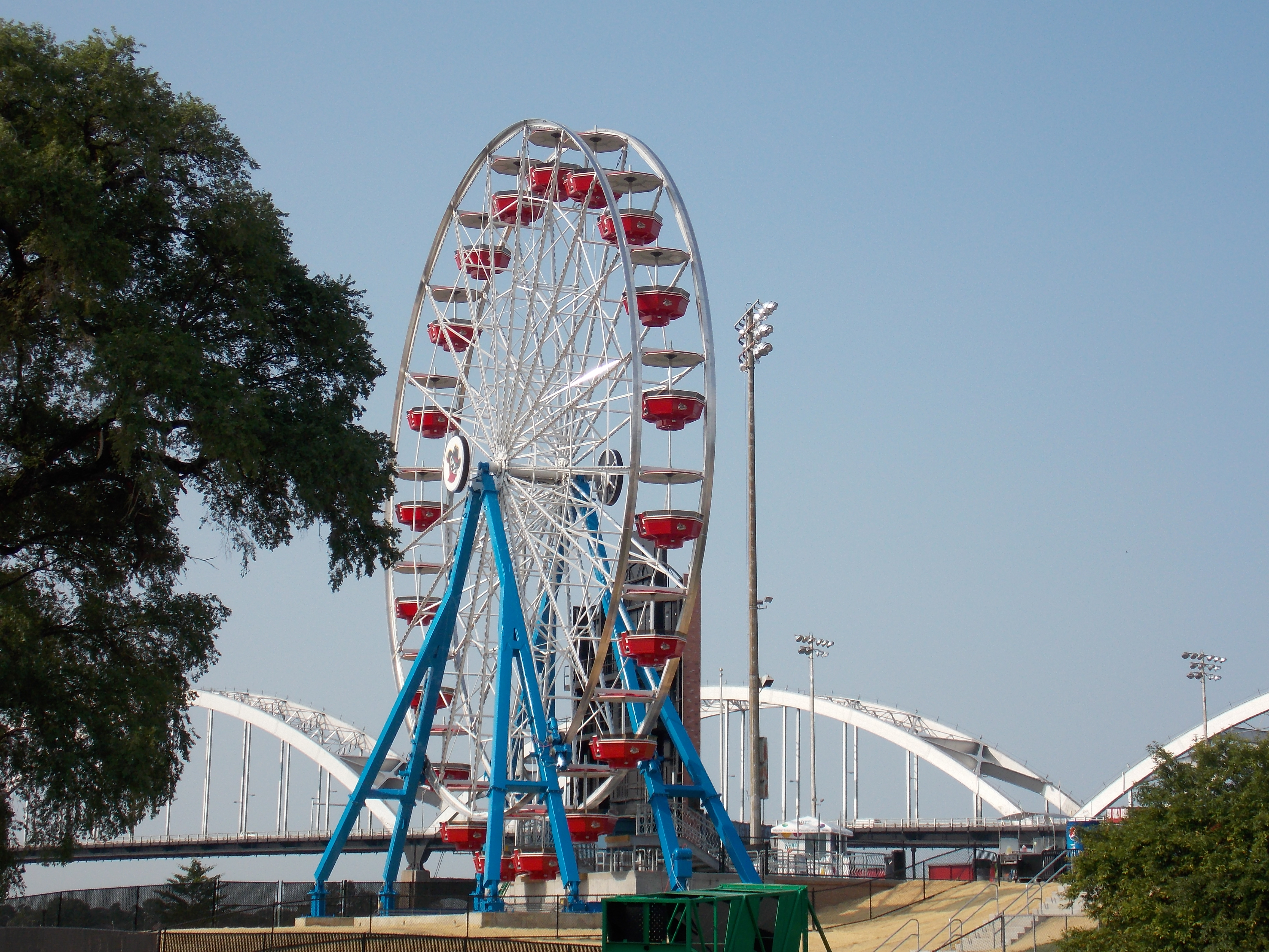 The Ferris Wheel at Modern Woodmen Park in Davenport, Iowa.